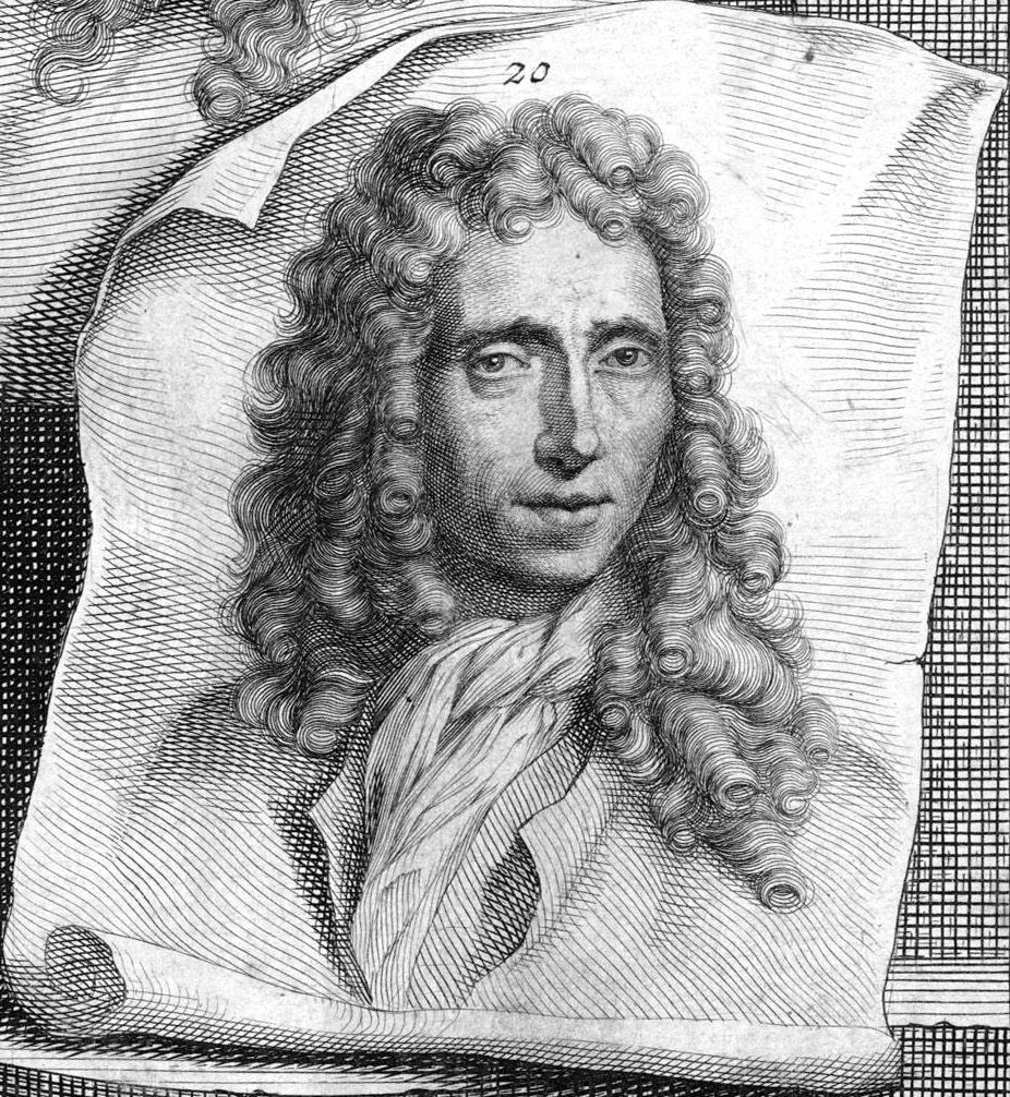 Johannes Voorhout (11-11-1647 / 12-05-1723), from "Arnold Houbraken - De groote schouburgh der Nederlantsche Konstschilders en schilderessen, Amsterdam 1718-1721" engraving c. 1721